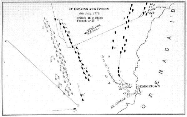 D'Estaing and Byron, July 6, 1779; Battle of Gernada, after A. T. Mahan